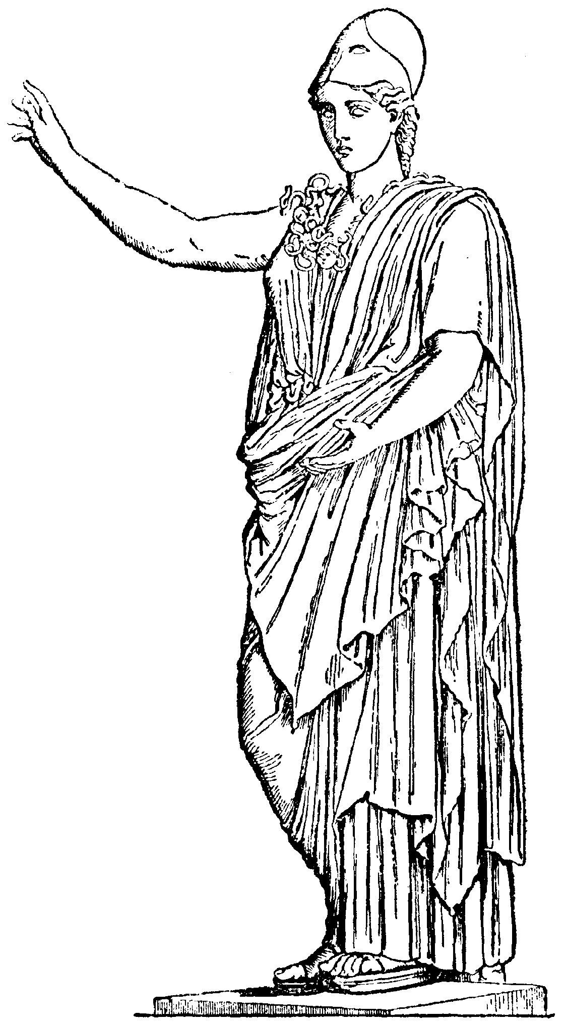 Pallas Velletri (from the Louvre)